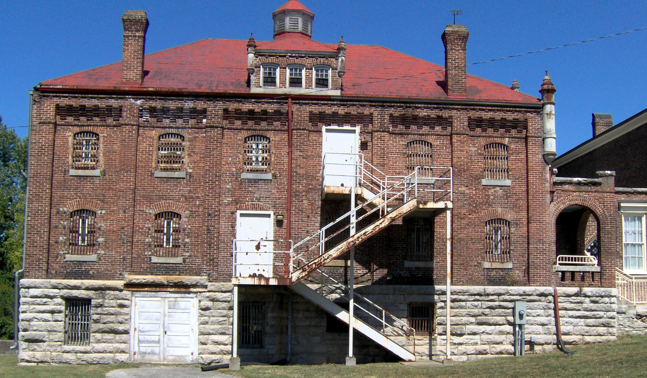 1892 historic jail building in Georgetown, Kentucky,county seat of Scott County, Kentucky.